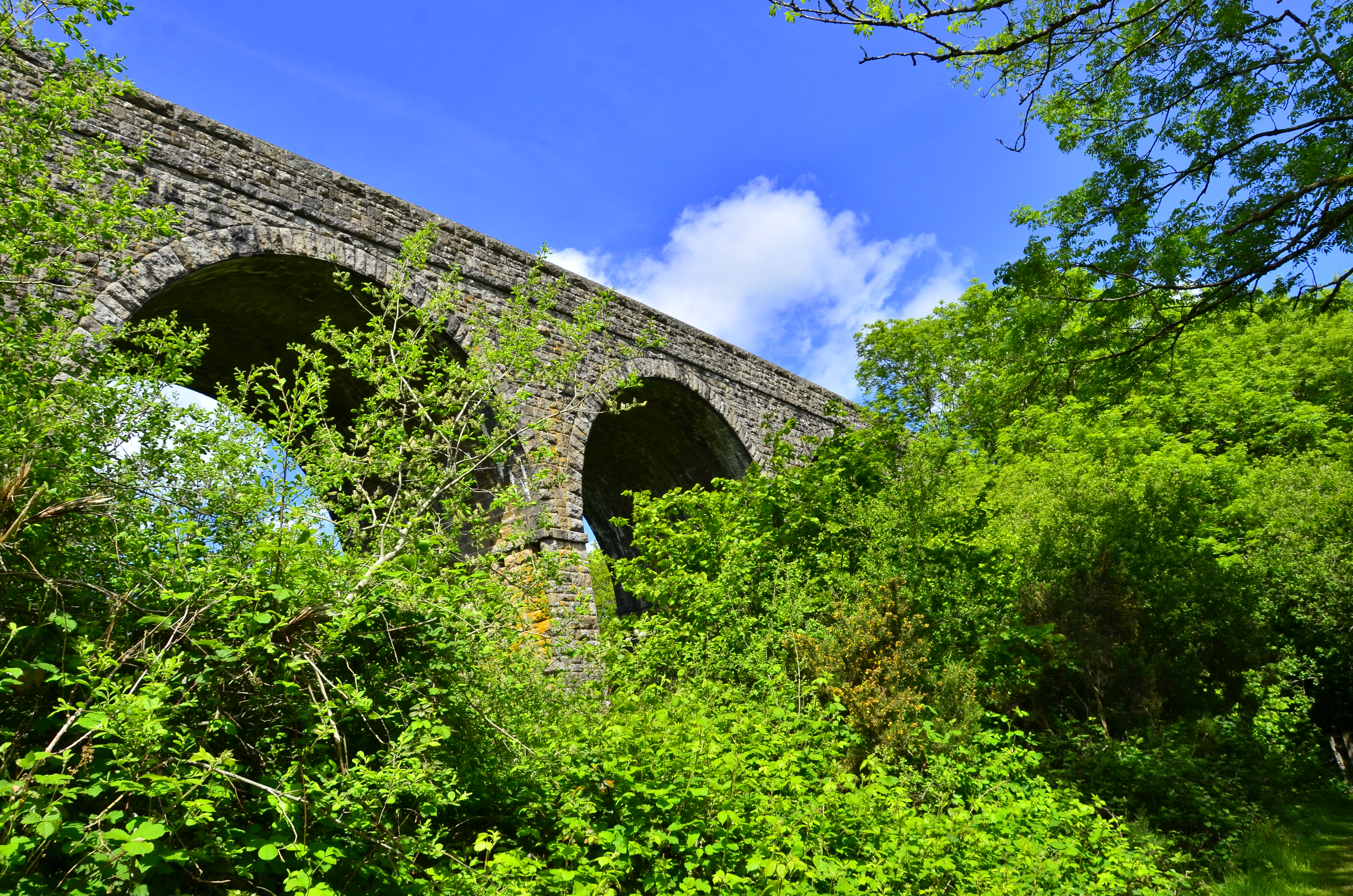 Lake Viaduct, formerly a railway bridge, is now part of the Granite Way in Devon.